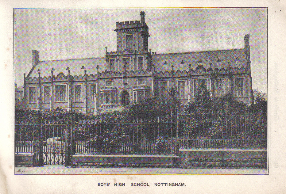 Nottingham High School from the Illustrated Guide to the Church Congress 1897